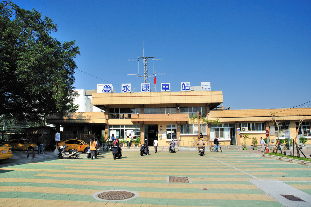 YongKang Station is a local train station of Taiwan's Western main rail line. It's the main station of YongKang City, TaiNan County.